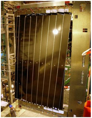 Outer tracker LHCb